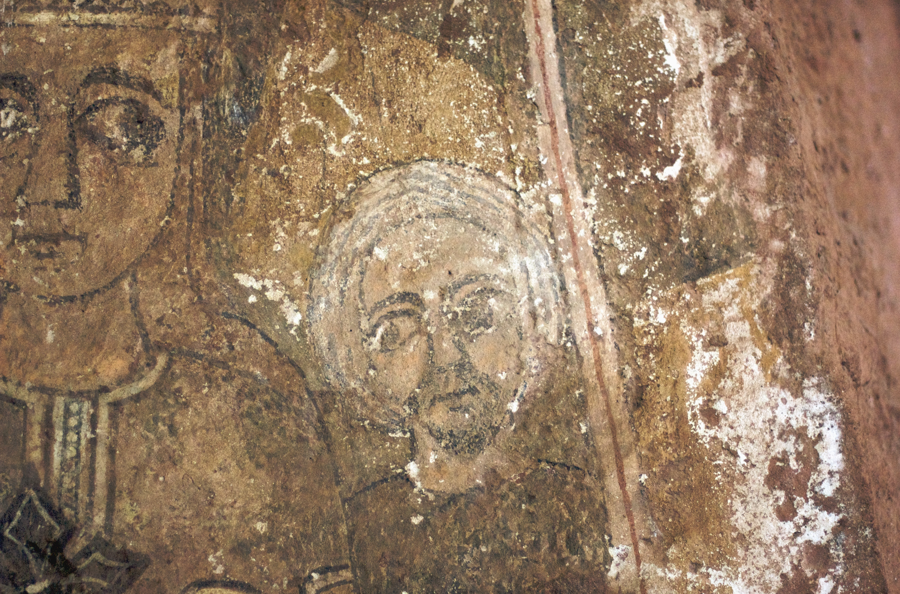 According to the Bradt Guide Ethiopia by Phillip Briggs (4th ed., November 2005), "Bet Mercurios is a cave church. It was orginally used for secular purposes, and may well be around 1,400 years old. The presence of iron shackles in a trench suggests it may have served as a jail or a courtroom." "The interior is partially collapsed - the entrance was rebuilt from scratch in the late 1980s, but it does boast a beautiful if rather faded 15th-century wall frieze of what looks like three wise men or a group of saints."